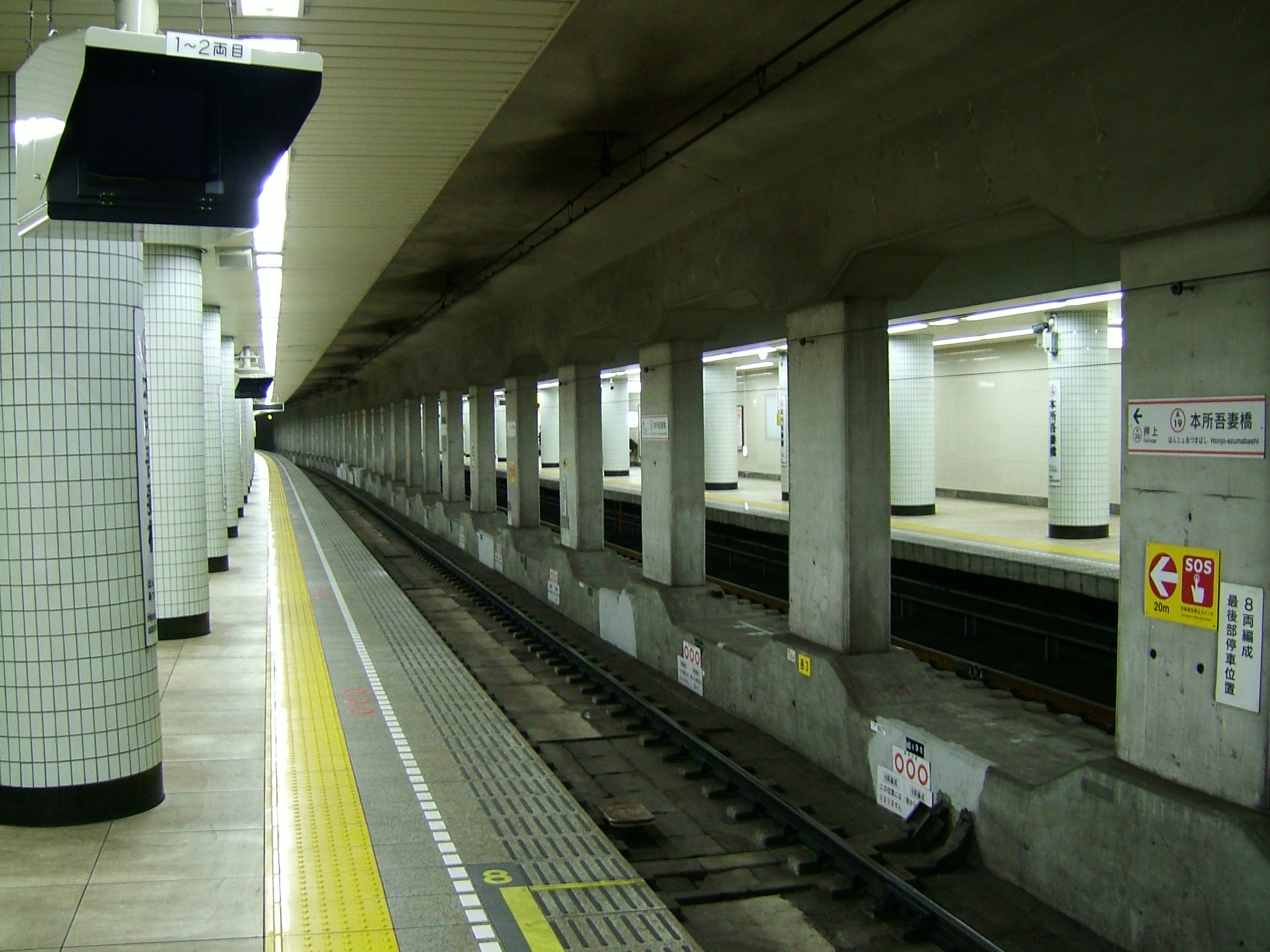 The platforms at Honjo-azumabashi Station on the Toei Asakusa Line in Sumida city, Tokyo, Japan